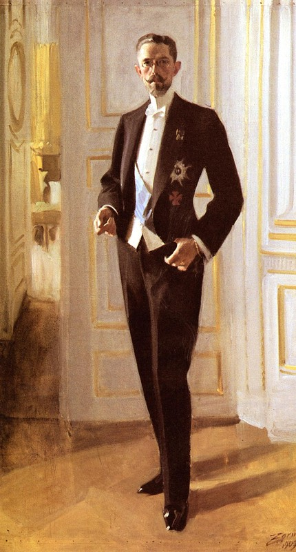 Gustav V of Sweden